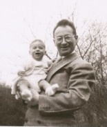 Beys Afroyim (1893–1984), subject of the landmark U.S. Supreme Court citizenship law case Afroyim v. Rusk, with his infant son Amos.